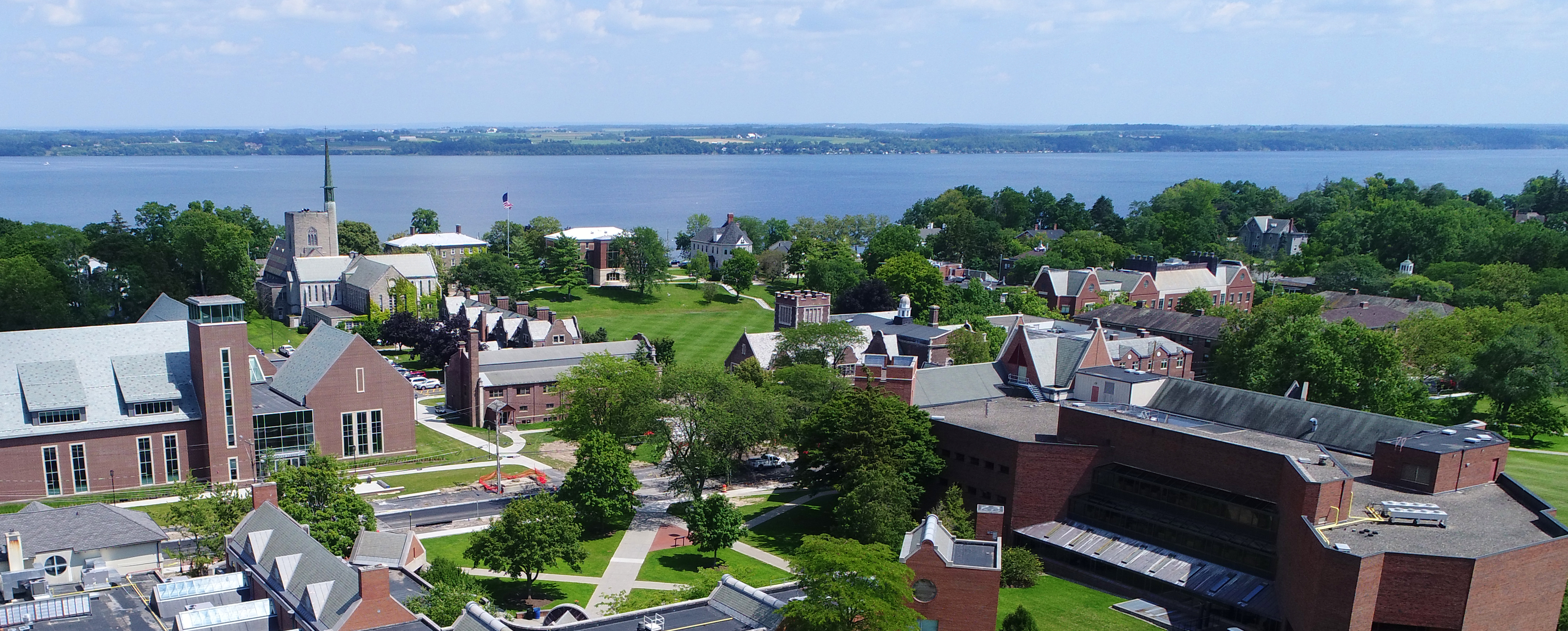 An aerial view of the Hobart and William Smith Colleges campus and Seneca Lake.